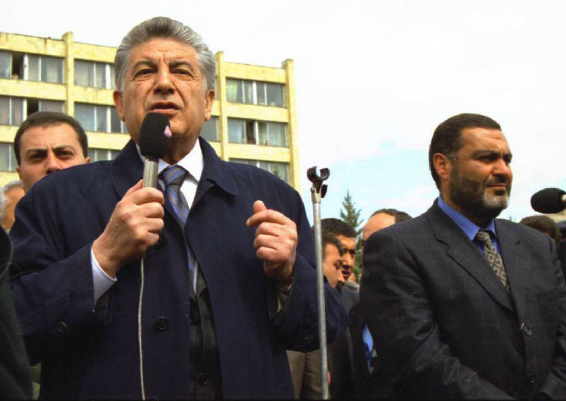 Karen Demirchyan and Vazgen Sargsyan in 1999, Aravot Daily